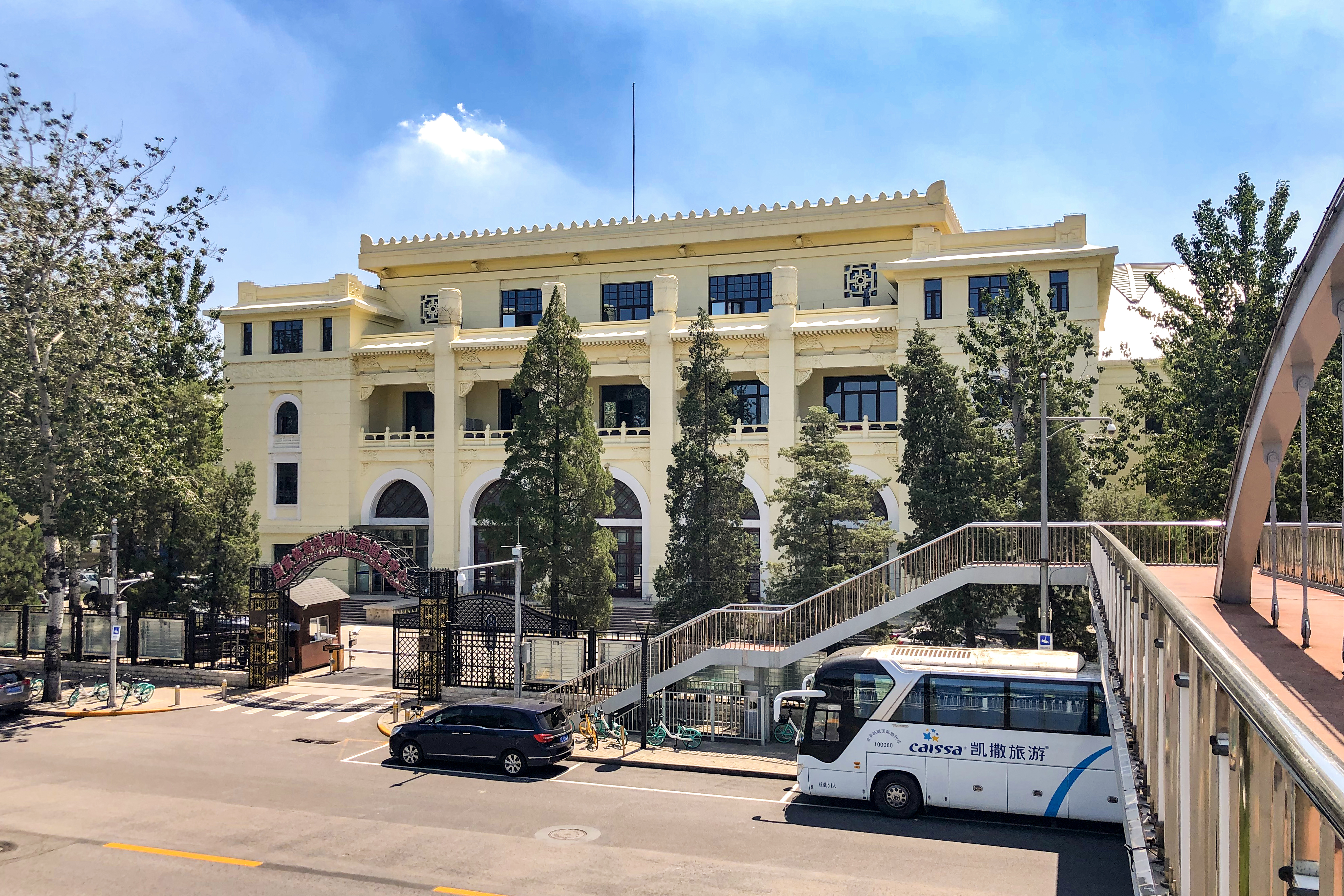 Yes, that "Beijing Gymnasium".